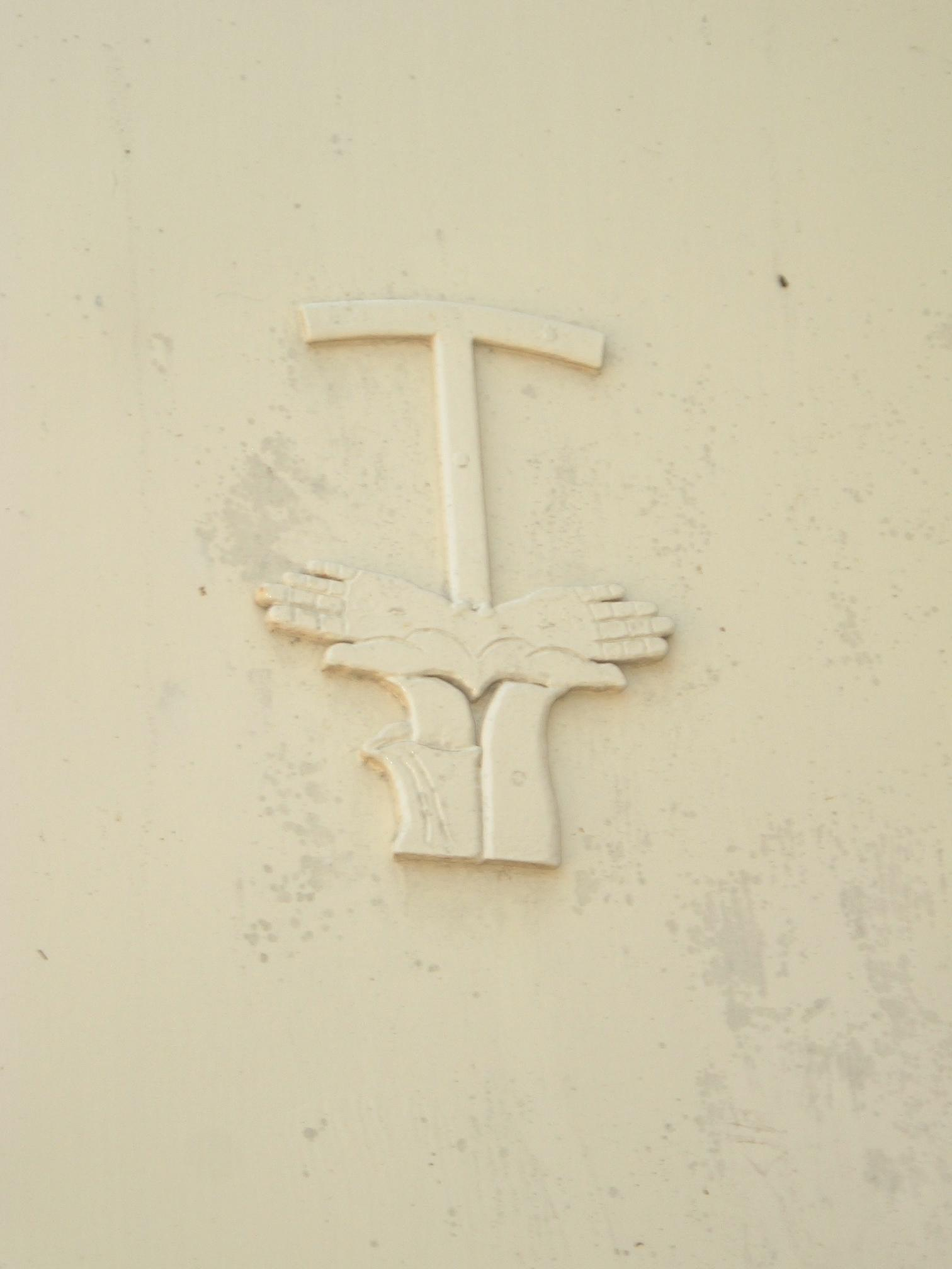 Franciscan symbol on a door in the wall of the church of the visitation in Ein Karem, Jerusalem, Israel.